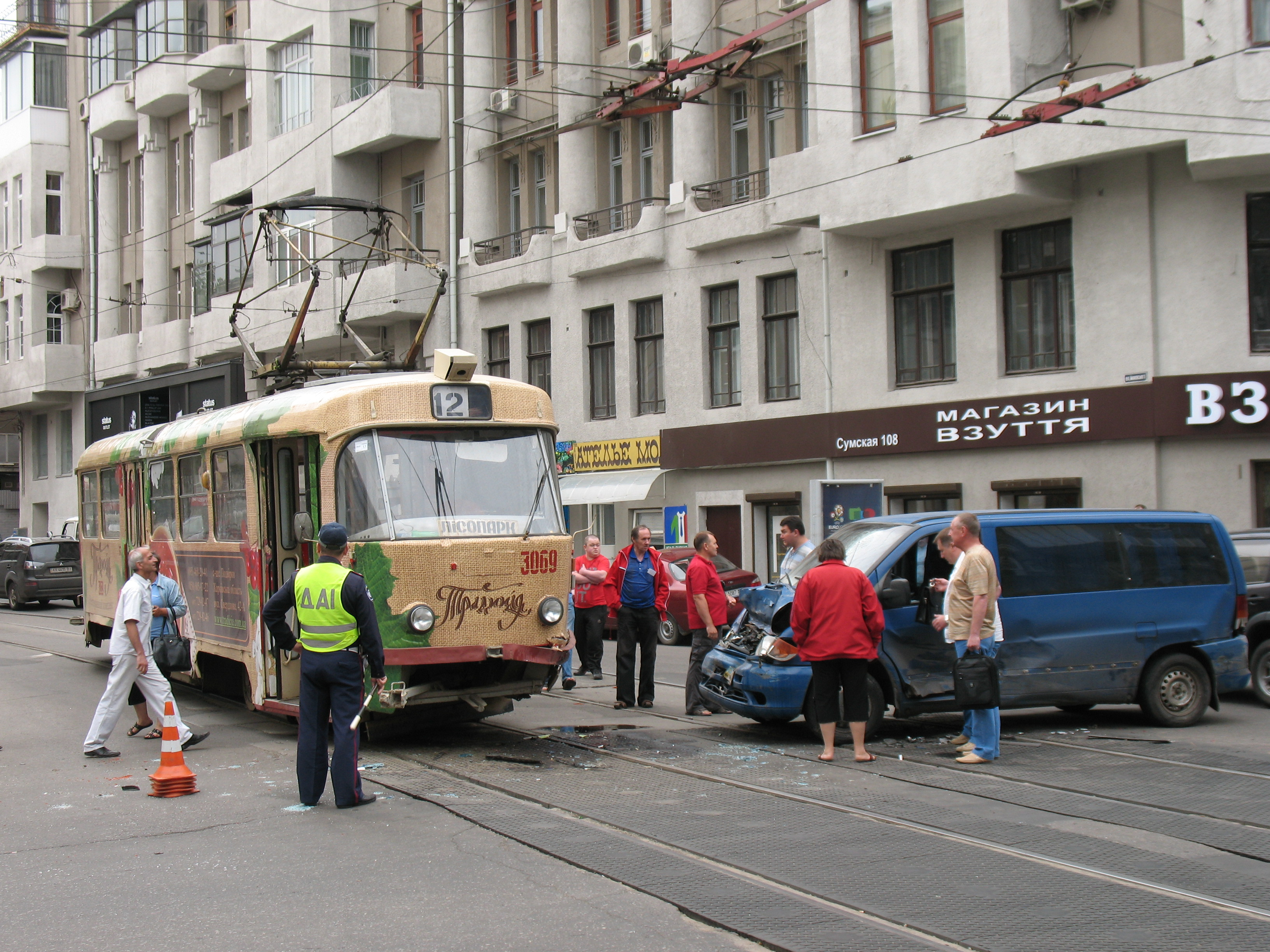 Road accident in Kharkov City and GAI (traffic police).